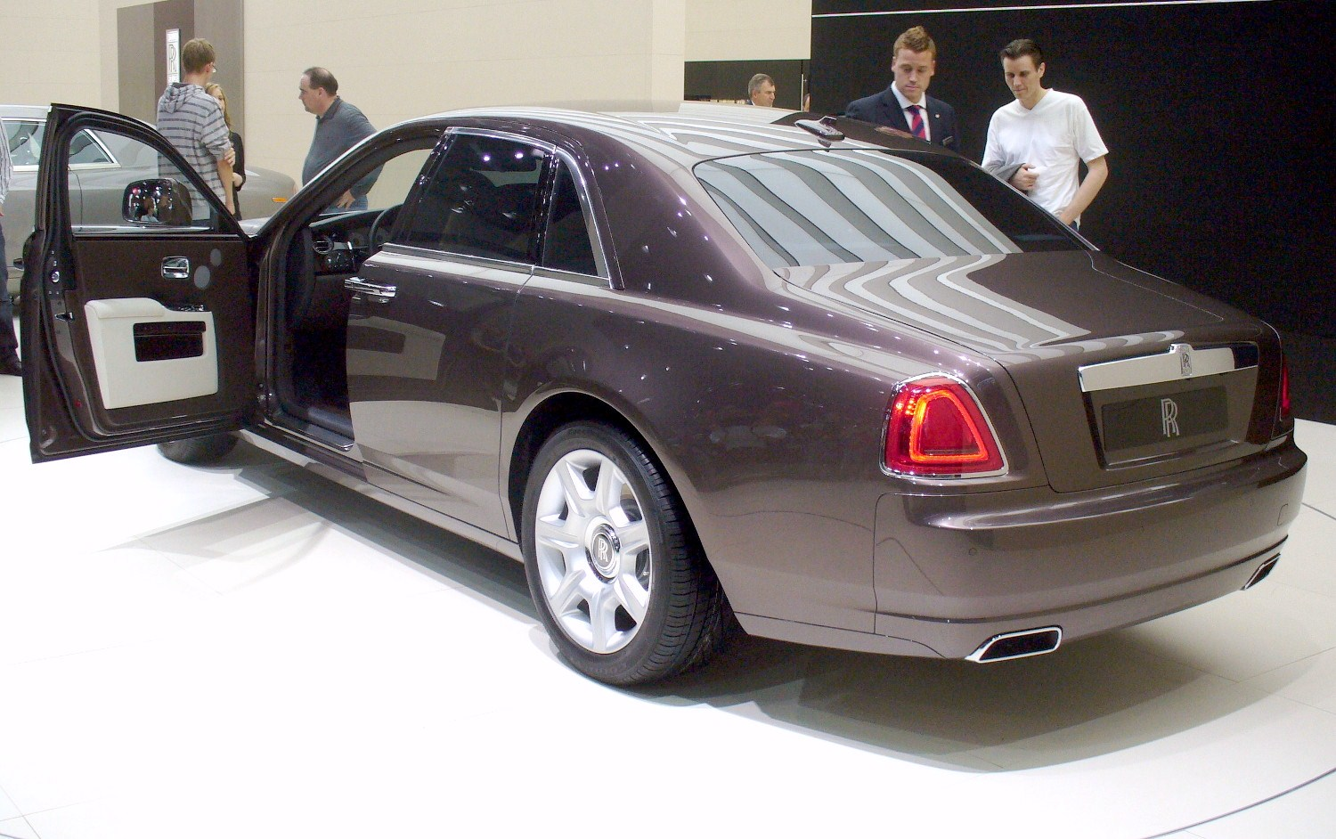 Rolls-Royce Ghost